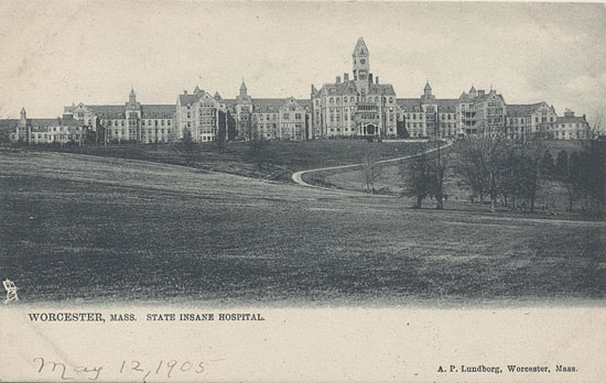 Worcester State Asylum in Worcester, Massachusetts. Postcard hand dated 1905 published by A. P. Lundborg in Worcester, Mass.